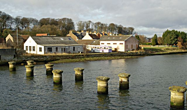 The pillars mark the position of an old railway bridge built in 1852 by Thomas Bouch who was made infamous in 1879 by the collapse of the Tay Railway Bridge which he also engineered. The railway was closed in 1969. The factory in the background is a paper mill operated by Curtis Fine Papers.